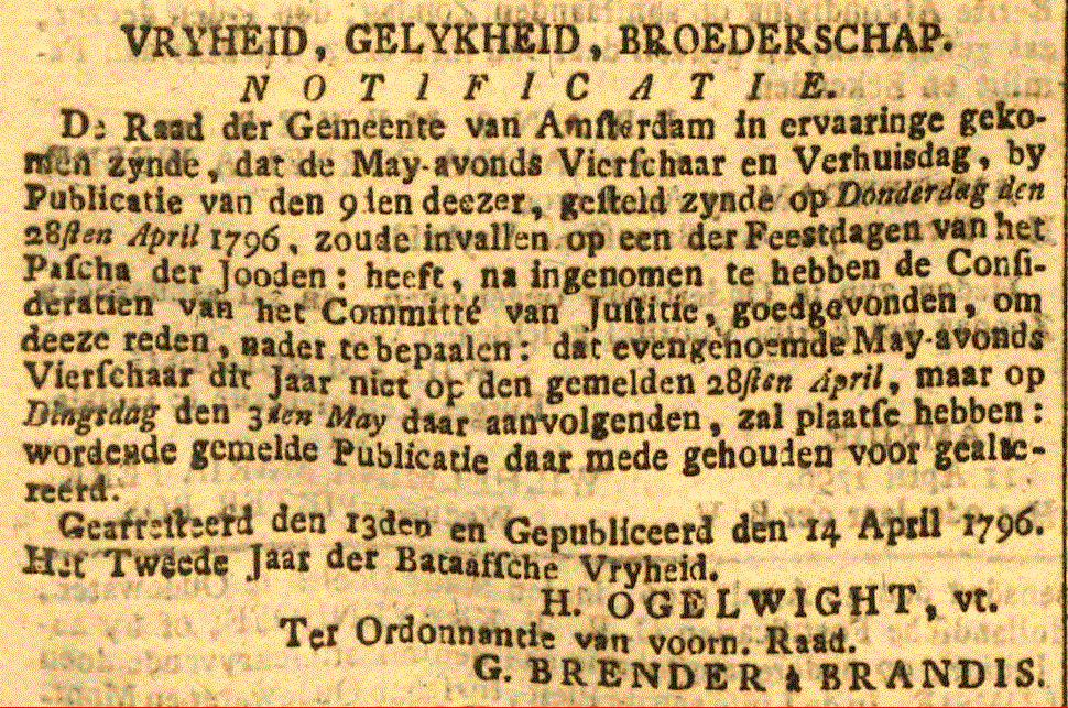 Changing moving day Amsterdam because of Jewish Eastern (1796)